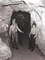 Herb and Jan Conn